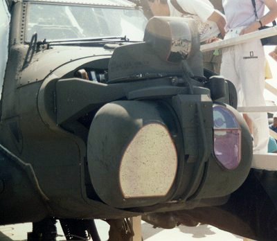 Nose of AH-64A